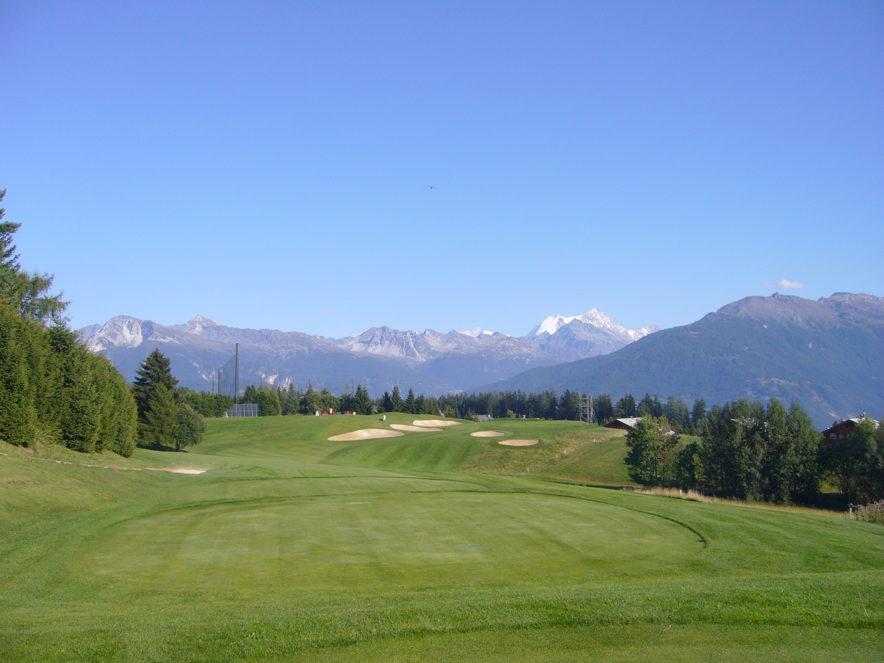 Crans Golf, from the tee of Hole 7 overlooking the Alps